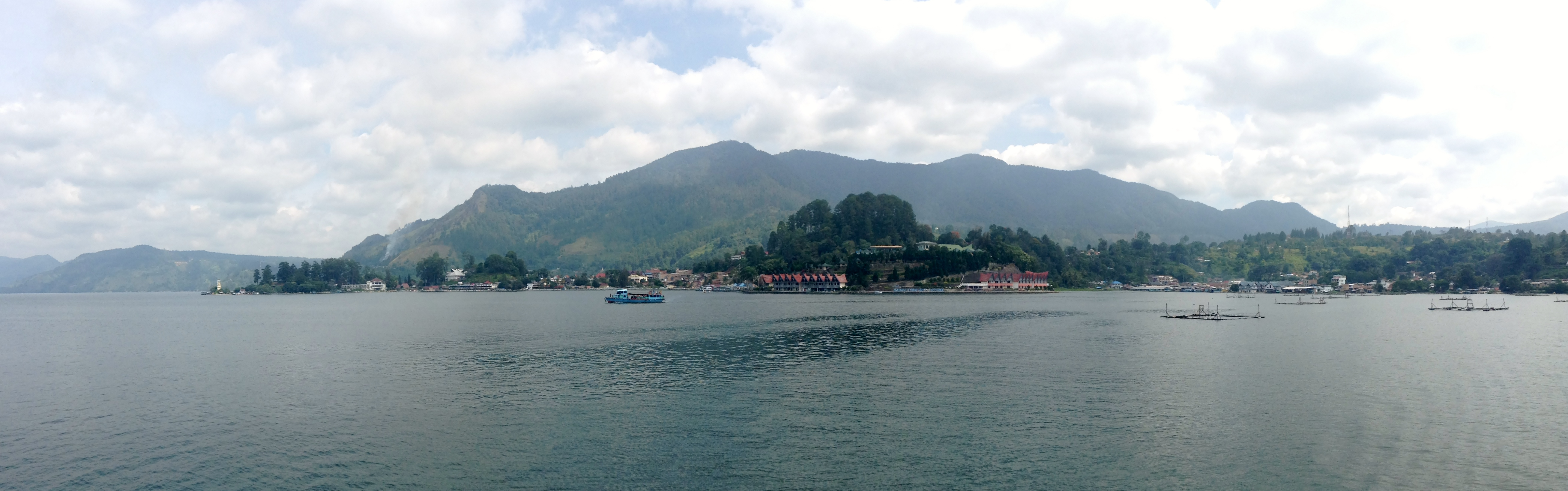 Panorama of Parapat seen from Lake TobaBahasa Indonesia: Panorama Kota Parapat dilihat dari Danau Toba